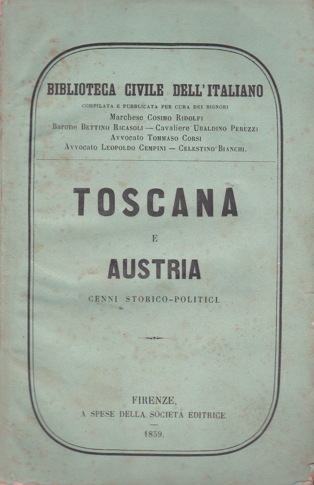 first page